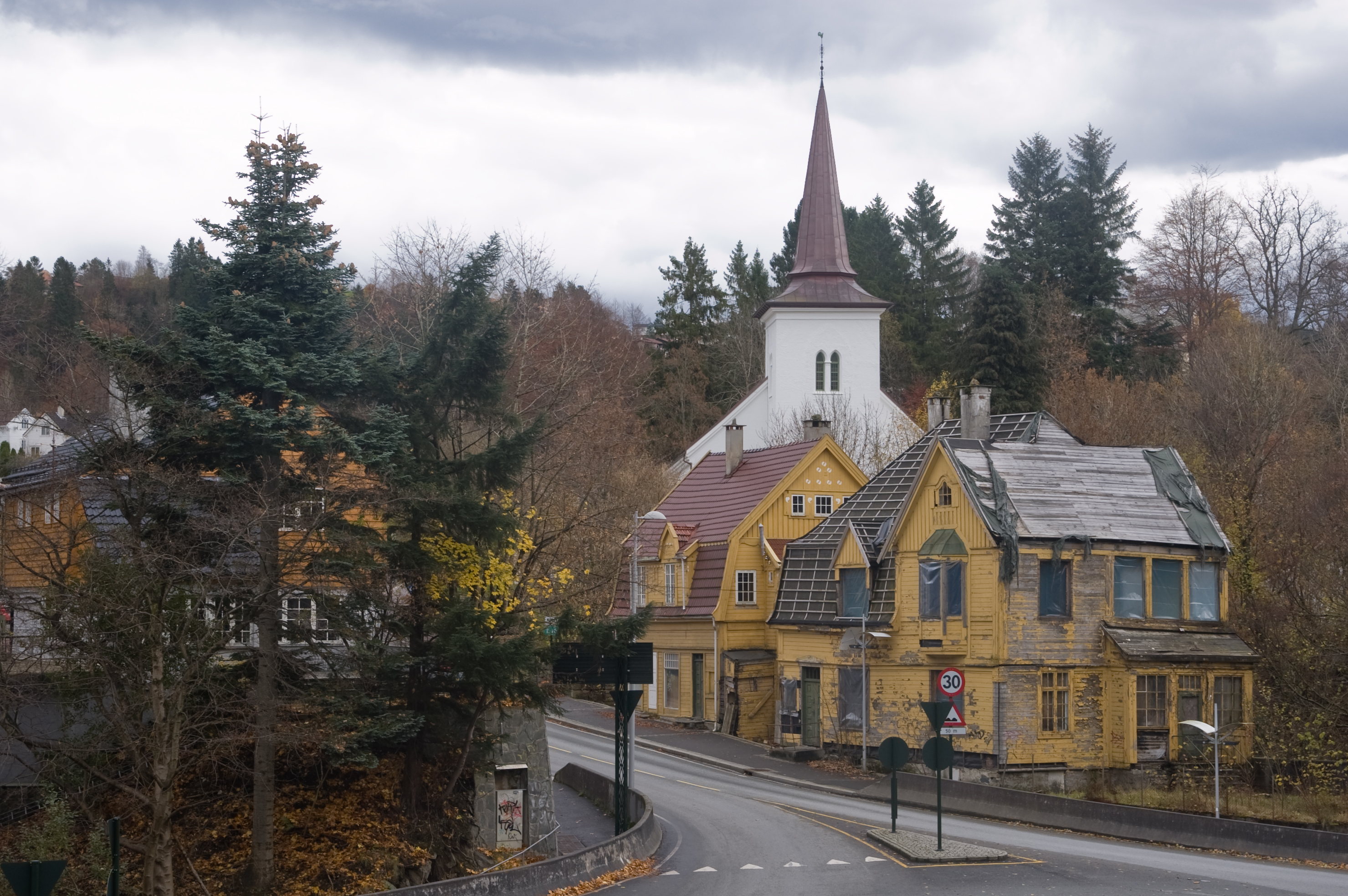 Buildings in Nesttun, Bergen, Norway.